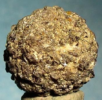 Stokesite Locality: Urucum mine (Tim mine; Córrego do Urucum pegmatite), Galiléia, Doce valley, Minas Gerais, Southeast Region, Brazil (Locality at ) Size: 1.8 x 1.7 x 1.6 cm. This is a spherical aggregate of lustrous, colorless stokesite blades from the one-time, early 1970s find at the very famous Corrego do Urucum pegmatite of Brazil. Ex. Carl Davis Collection.